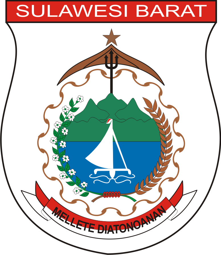 Coat of Arms of Indonesian province of West Sulawesi.